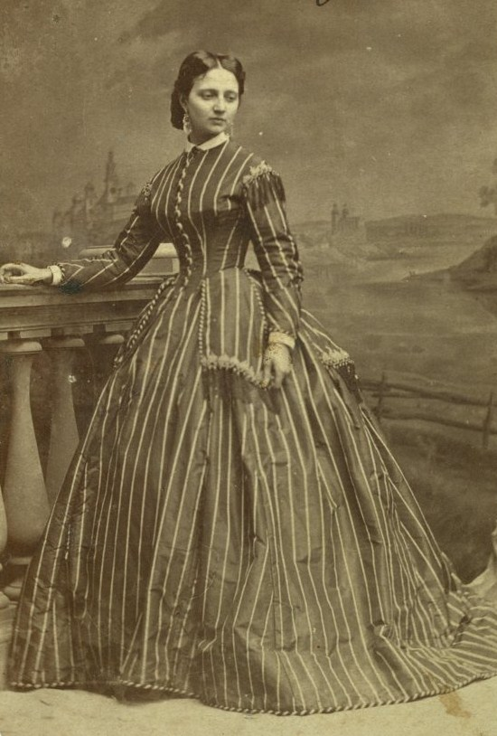 Helena Sanguszko (1836–1891)